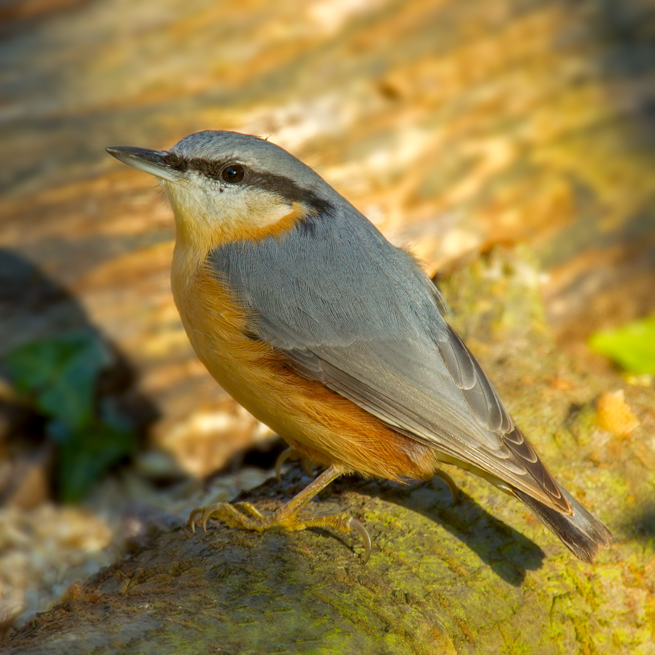 Eurasian Nuthatch